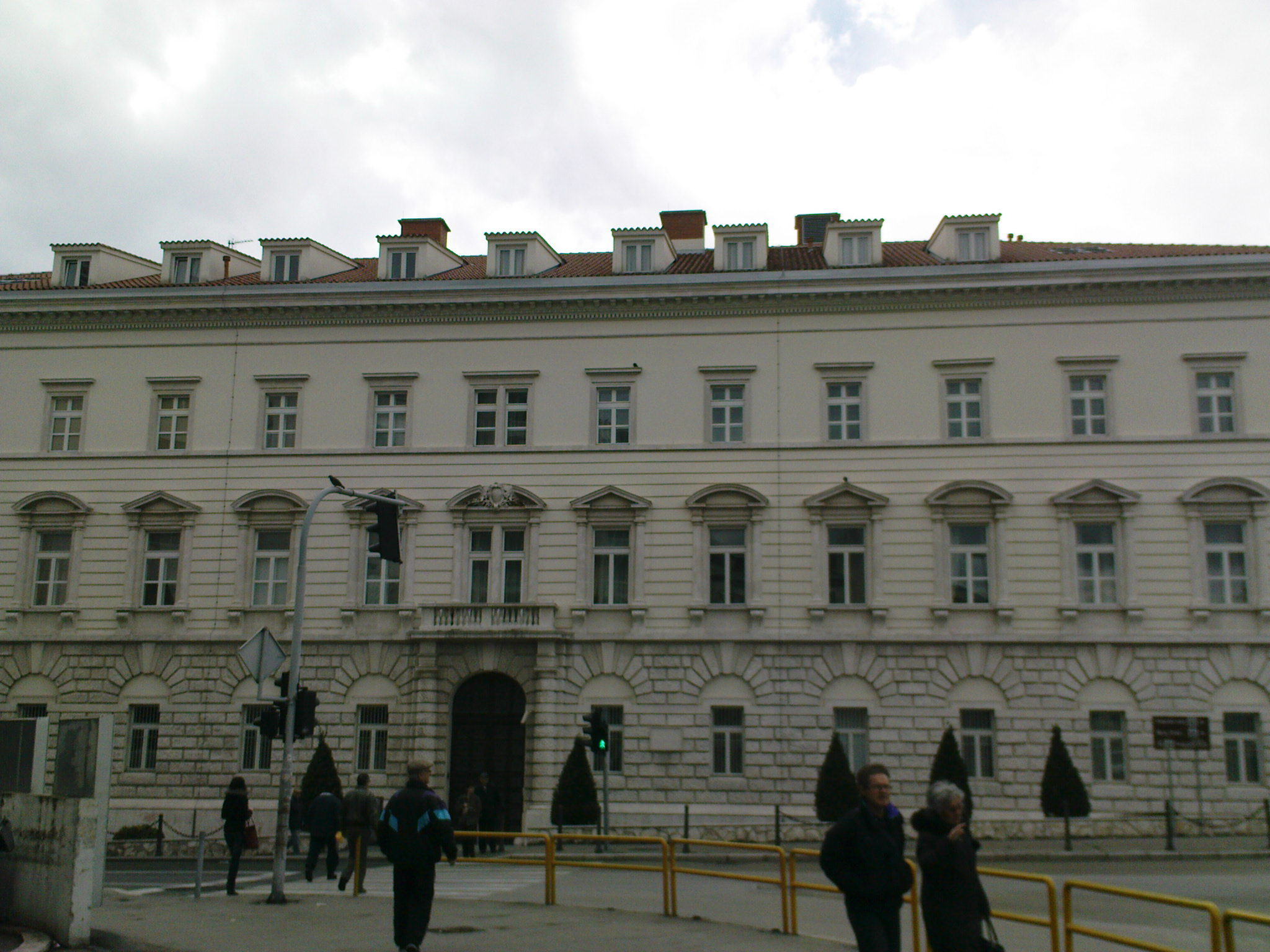 Archbishop Palace in Split